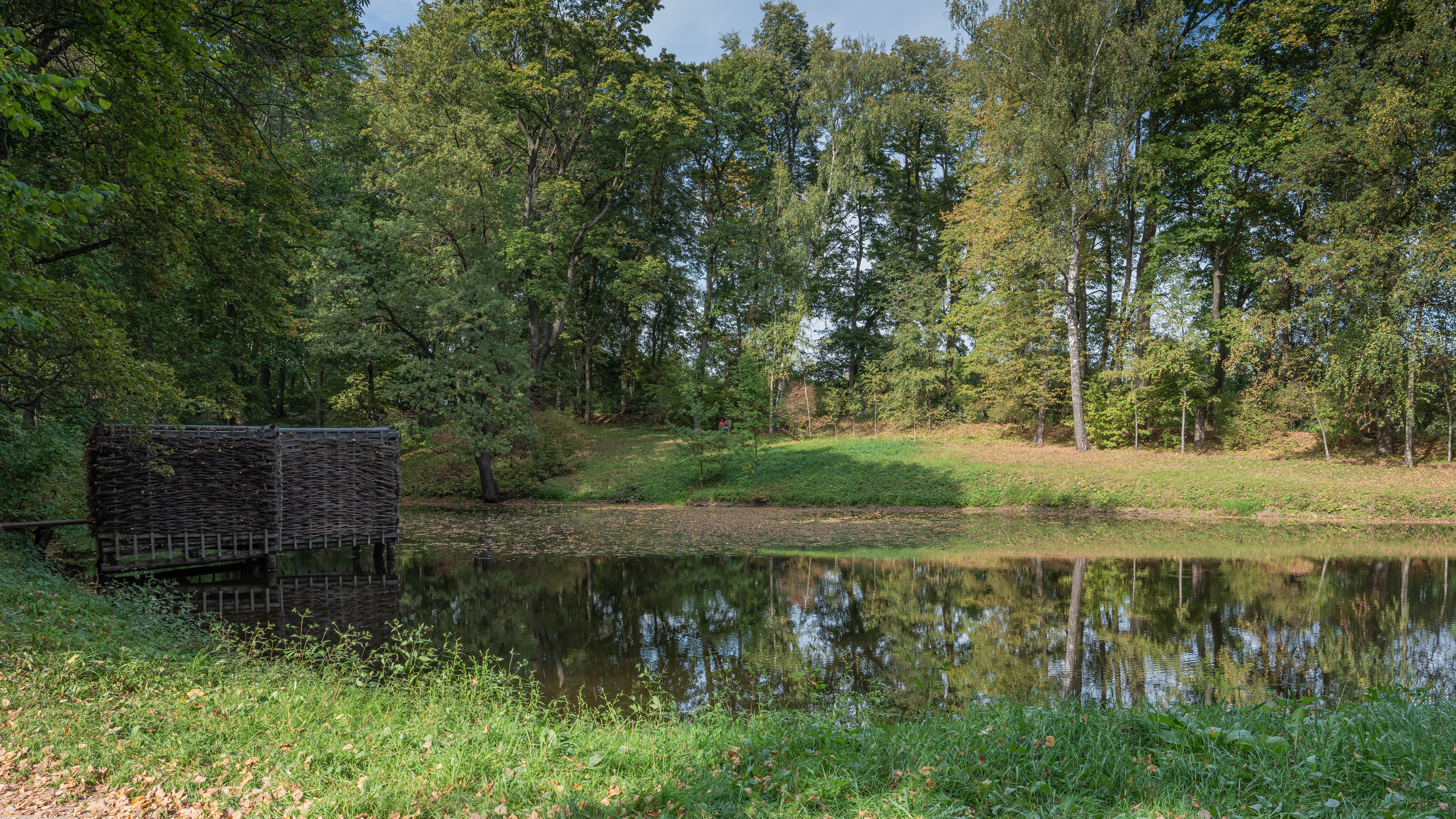 Middle Pond with bath in Yasnaya Polyana estate near Tula, Russia